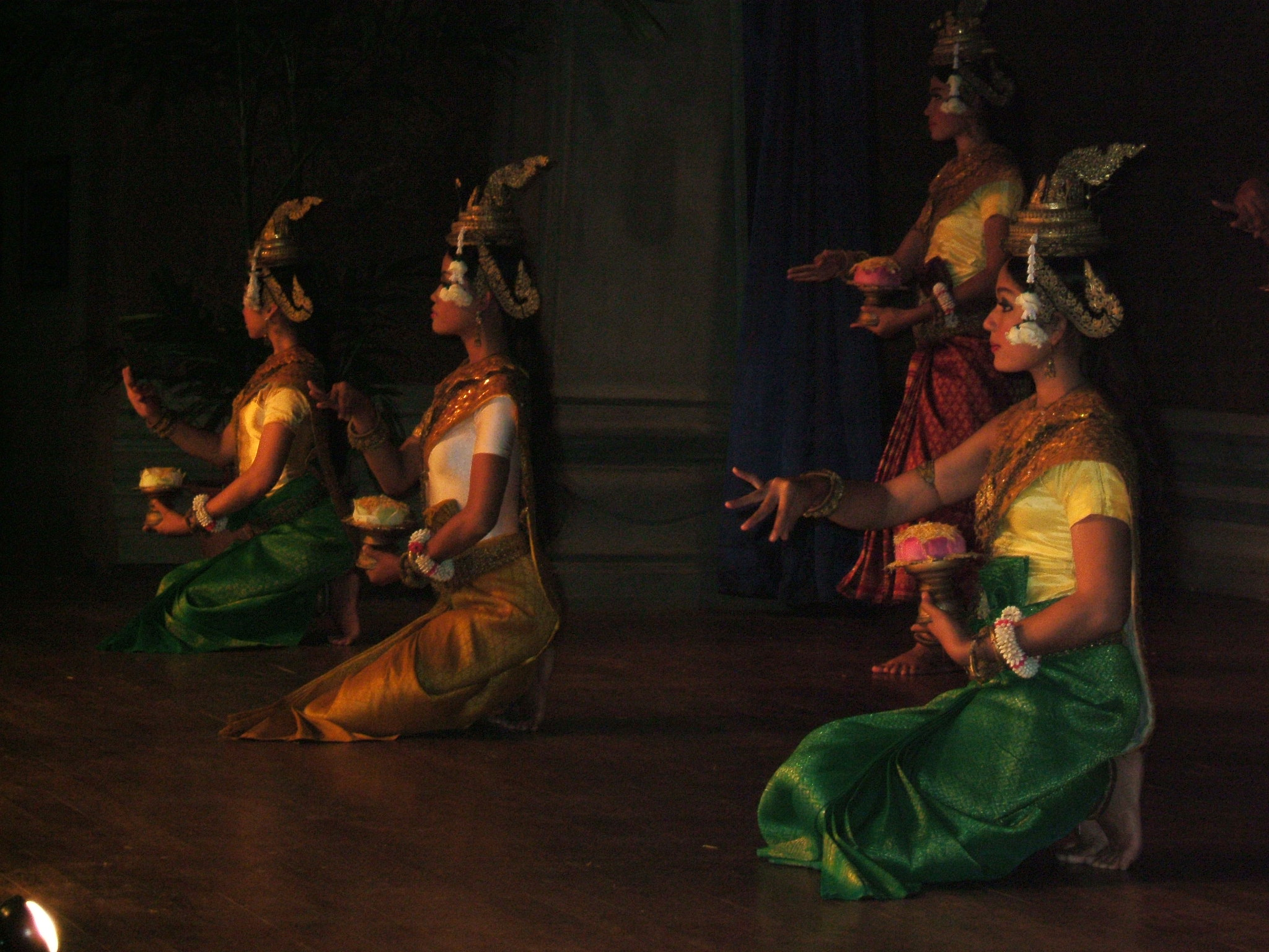 Dancers in Siem Reap, Cambodia, Oct. 2008, dancing in the style of the apsaras, women who danced religiously in the temples for heaven. The photograper wrote on the source page, "Apsara Dance has been part of Khmer culture for centuries. This fact is evident from thousands of sculptures and bas-reliefs found on the walls of several of the many Angkor temples. This probably suggests that Apsara dancers were not only ritual performers that entertained people during the Angkorian period but they were also believed to be goodwill messengers to the gods."